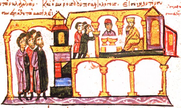 Konstantinos VII and Symeon at lunch